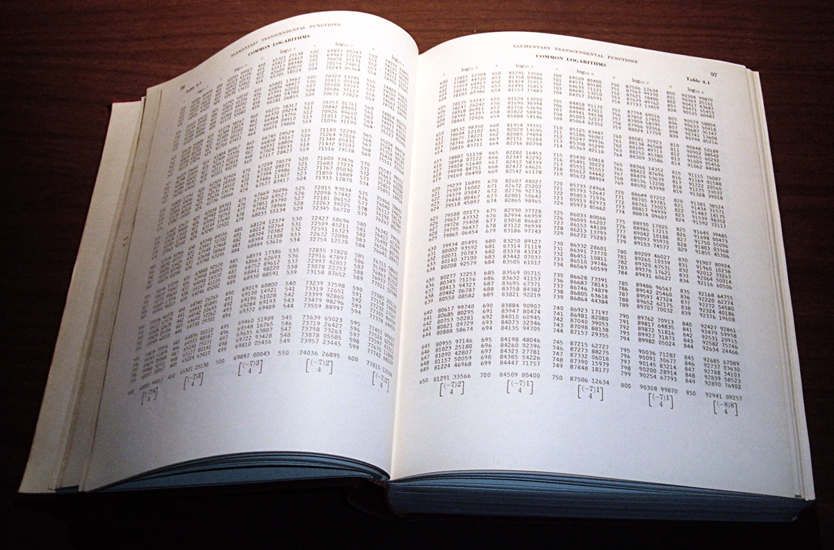 Page 97 of the Handbook of Mathematical Functions by Abramowitz and Stegun (first edition, first printing, US GPO, 1964) showing a table of common logarithms. The right side page 97, are the ten place logarithms of the numbers 6.00 thru 8.50, each to 10 decimal places. I took this picture of a book in my possession. The book itself is an original work of the US Federal Government and is therefore in the public domain.